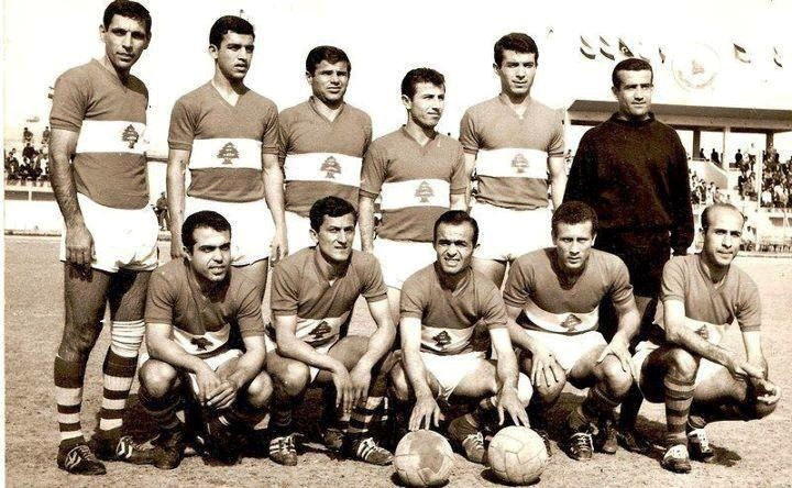 Lineup of the Lebanon national football team at the 1966 Arab Nations Cup.Bottom row (from right to left): Apo Kasabian, Ragheb Shaker, Adnan Mekdache (Adnan Al Sharqi), Mohamed Chatila, Mahmoud Bourjawi (Abou Taleb);Top row (from right to left): Samih Chatila, Sohail Rahal, Tabello (Muhieddine Itani), Elias George, Habib Kamouna, Joseph Abou Murad.